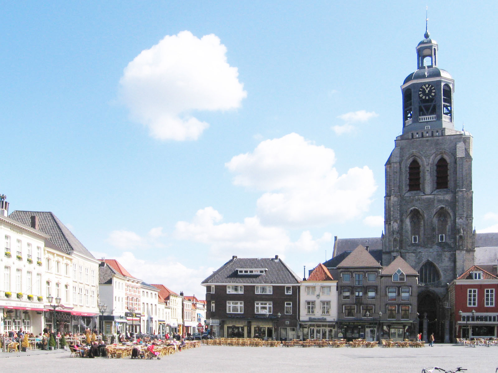 Gertudiskerk in Bergen Op Zoom, The Netherlands